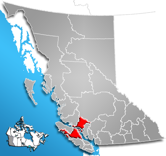 Location of Regional District of Comox-Strathcona, British Columbia